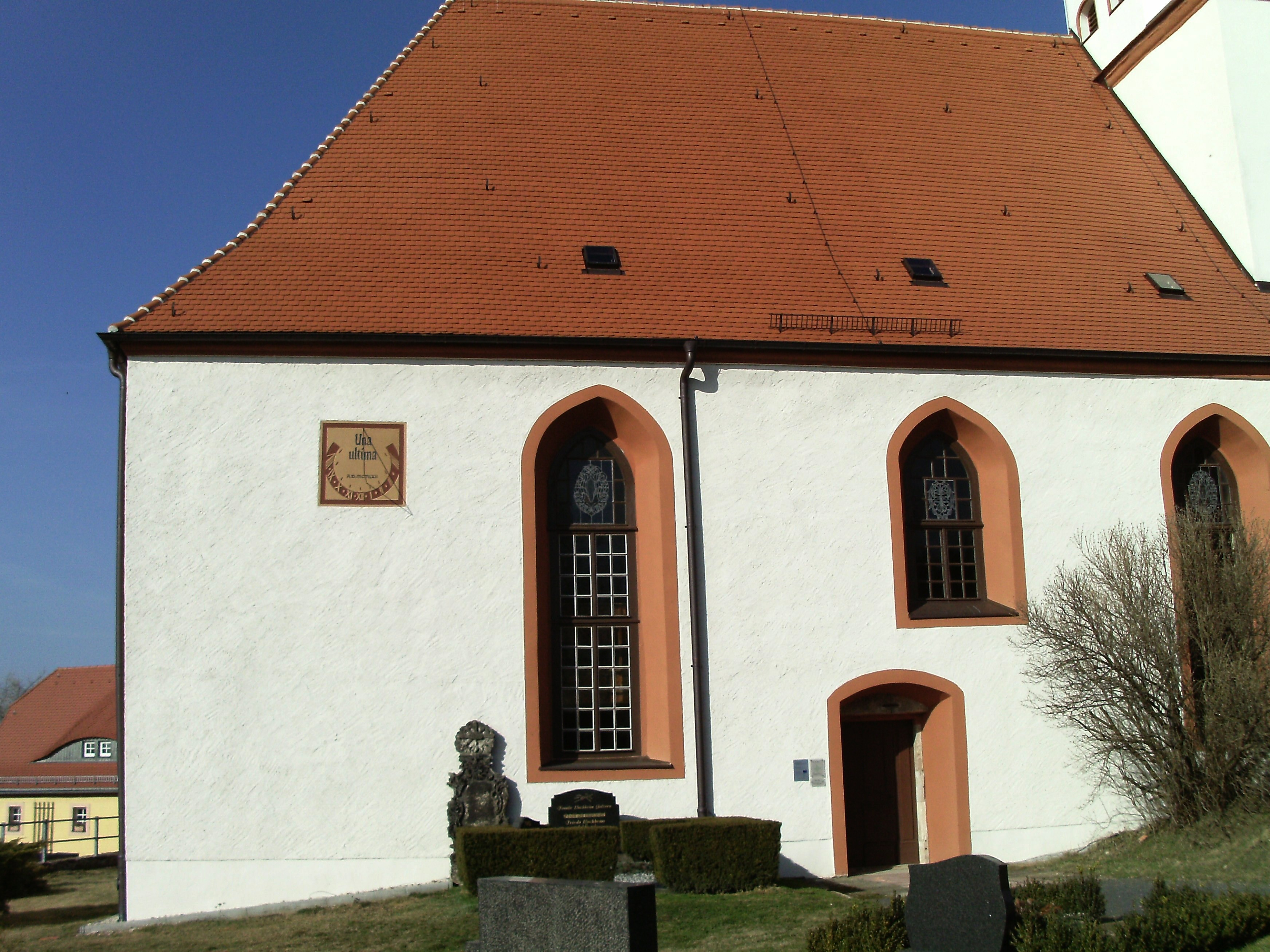 Döben church (Grimma, Leipzig district, Saxony)